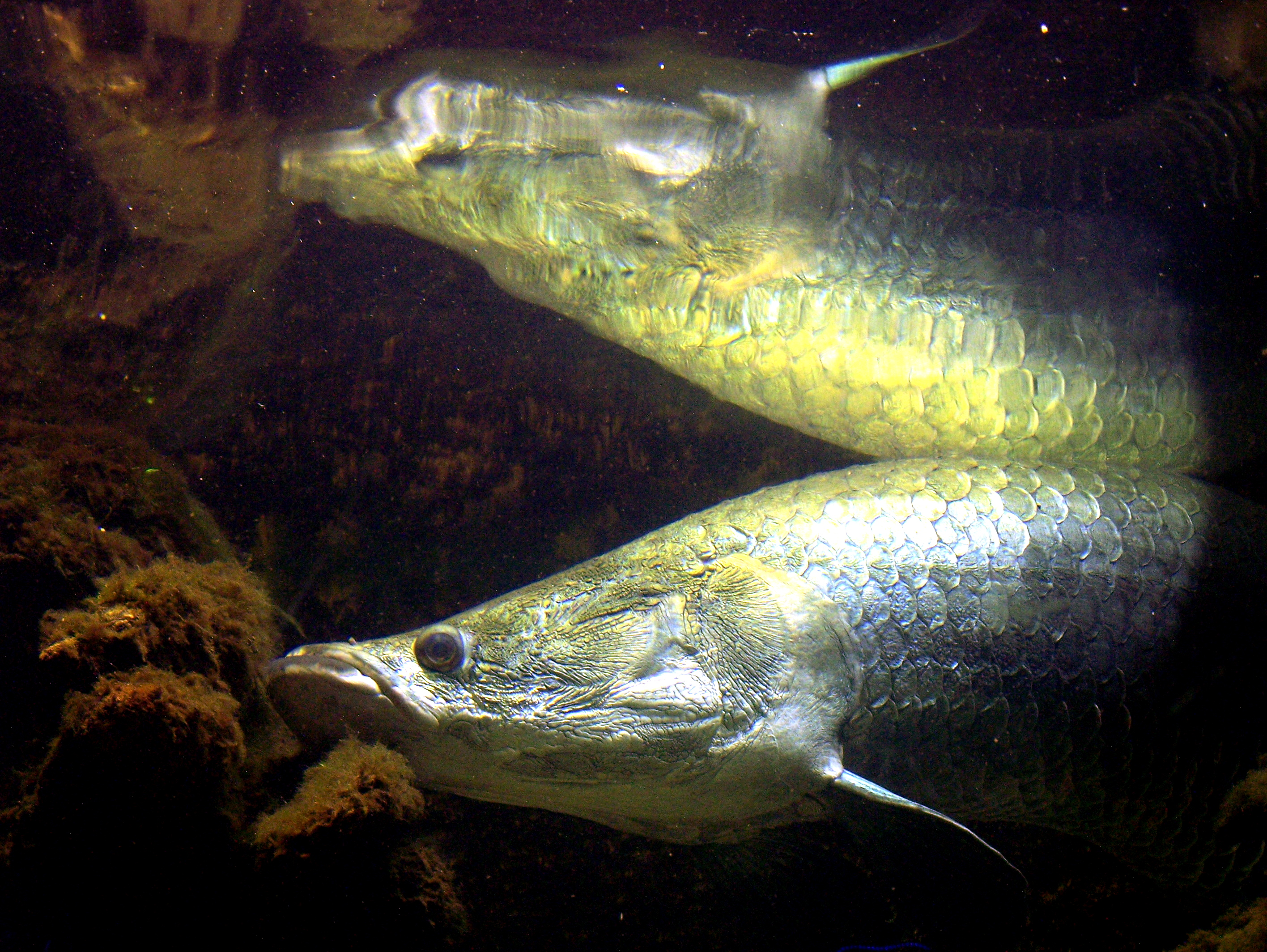 Taxonomy (with index of trivial names): Arapaima gigas (Schinz, 1822) Family: Osteoglossidae - band fishes, bony tongues Named in Brazil: Pirarucù, Warapai, Bodeco, Bodequinho Perú y Ecuador: Paiche Guyana: Warapai Colombia: De-Chi, Pirarucù, Paiche, Ticuna Ecuador: Paiche USA: Giant arapaima China: 巨巴西骨舌魚 (引進) Japan: アロワナ科